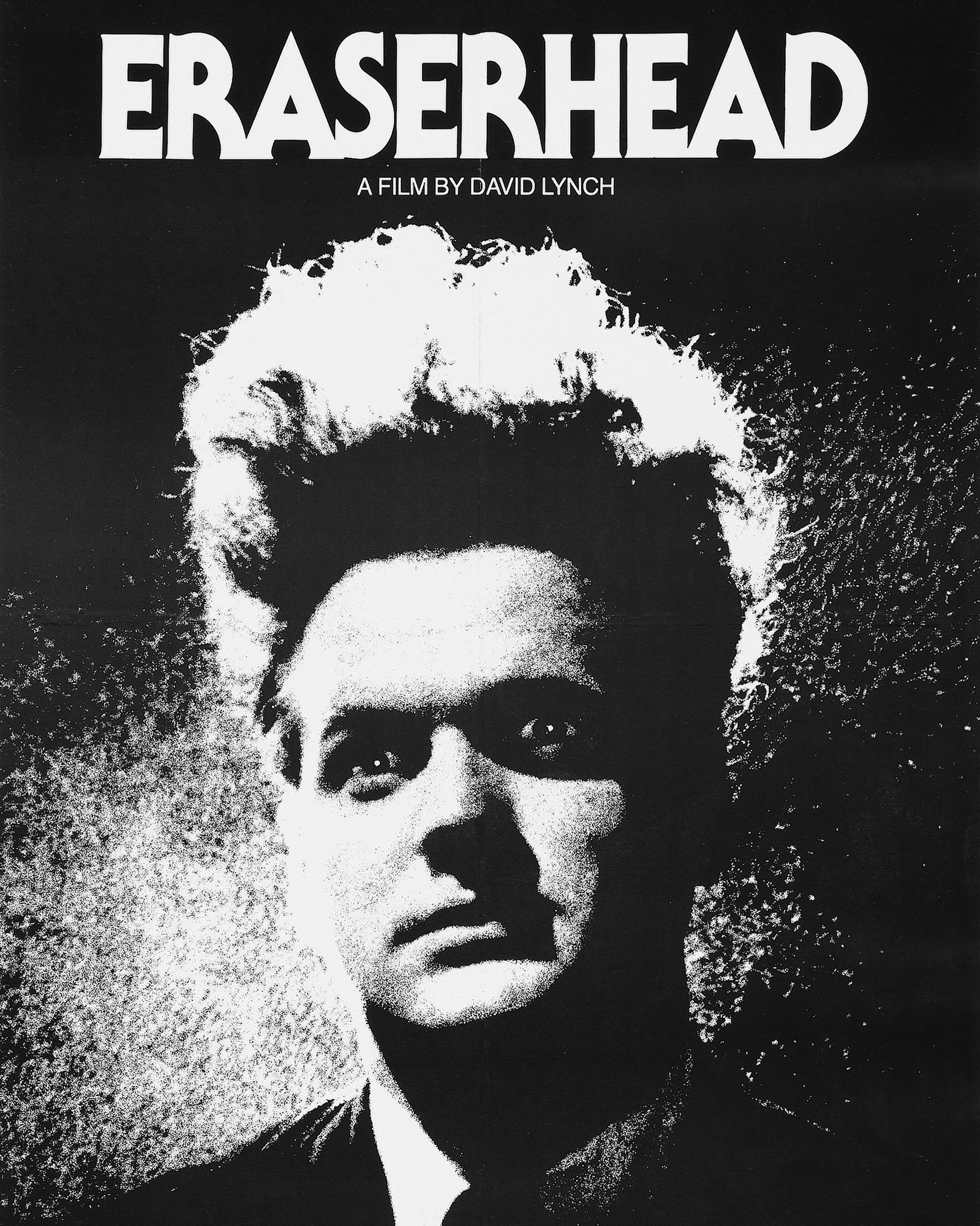 Eraserhead poster